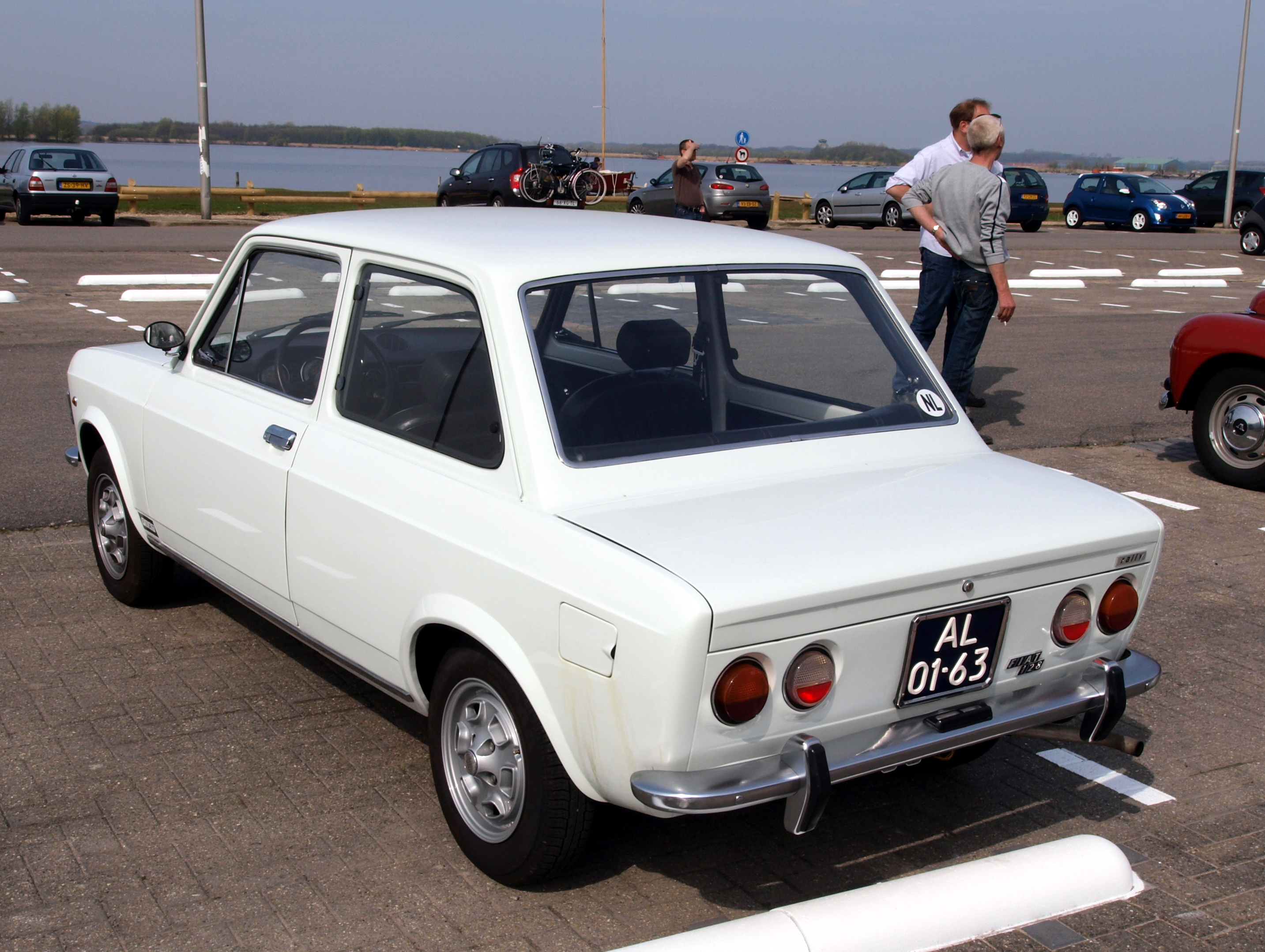 Cars and motorcycles photographed at the Voorschotense Oldtimer Vereniging Show, Valkenburgse meer, The Netherlands.